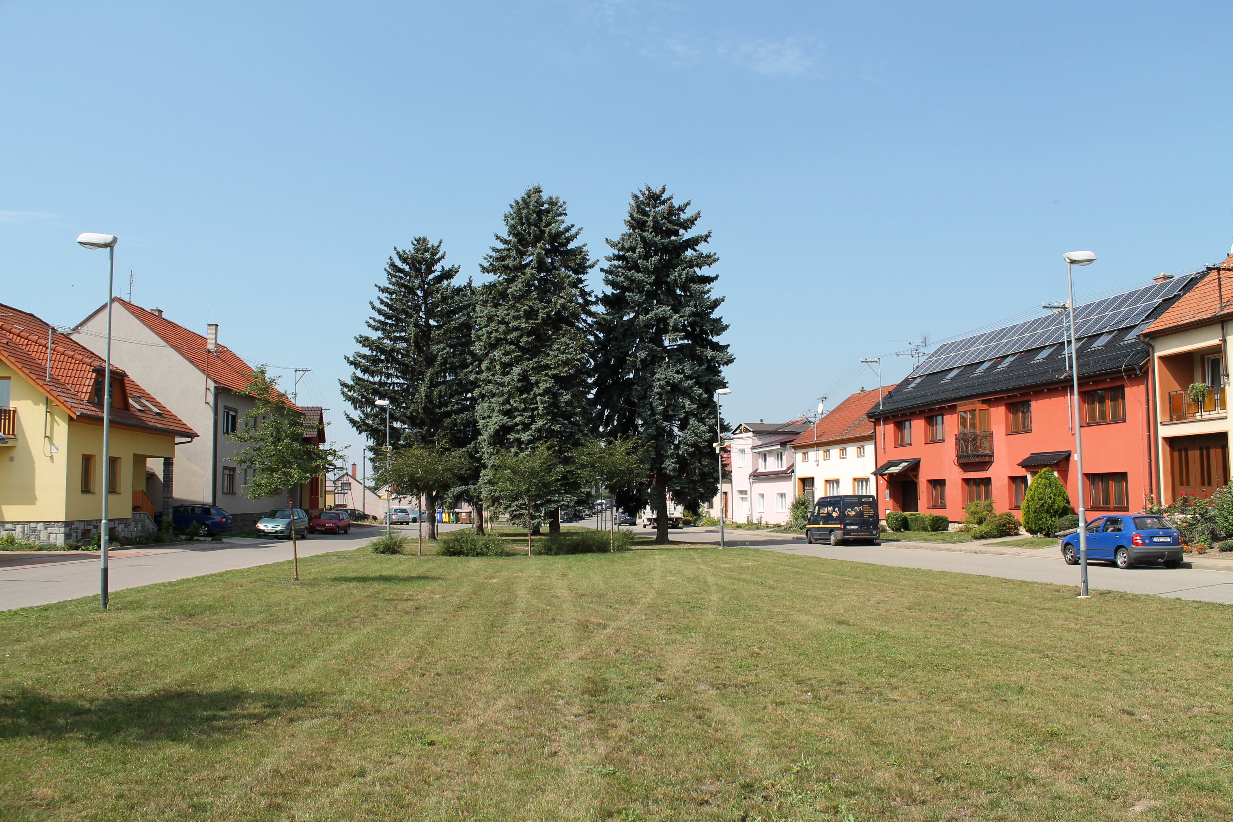 Kroužek, Rousínov, Vyškov District, Czech Republic